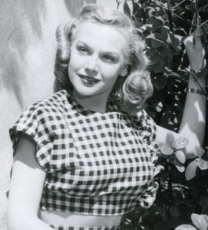 Marian Carr in promotional photo for The Devil Thumbs a Ride